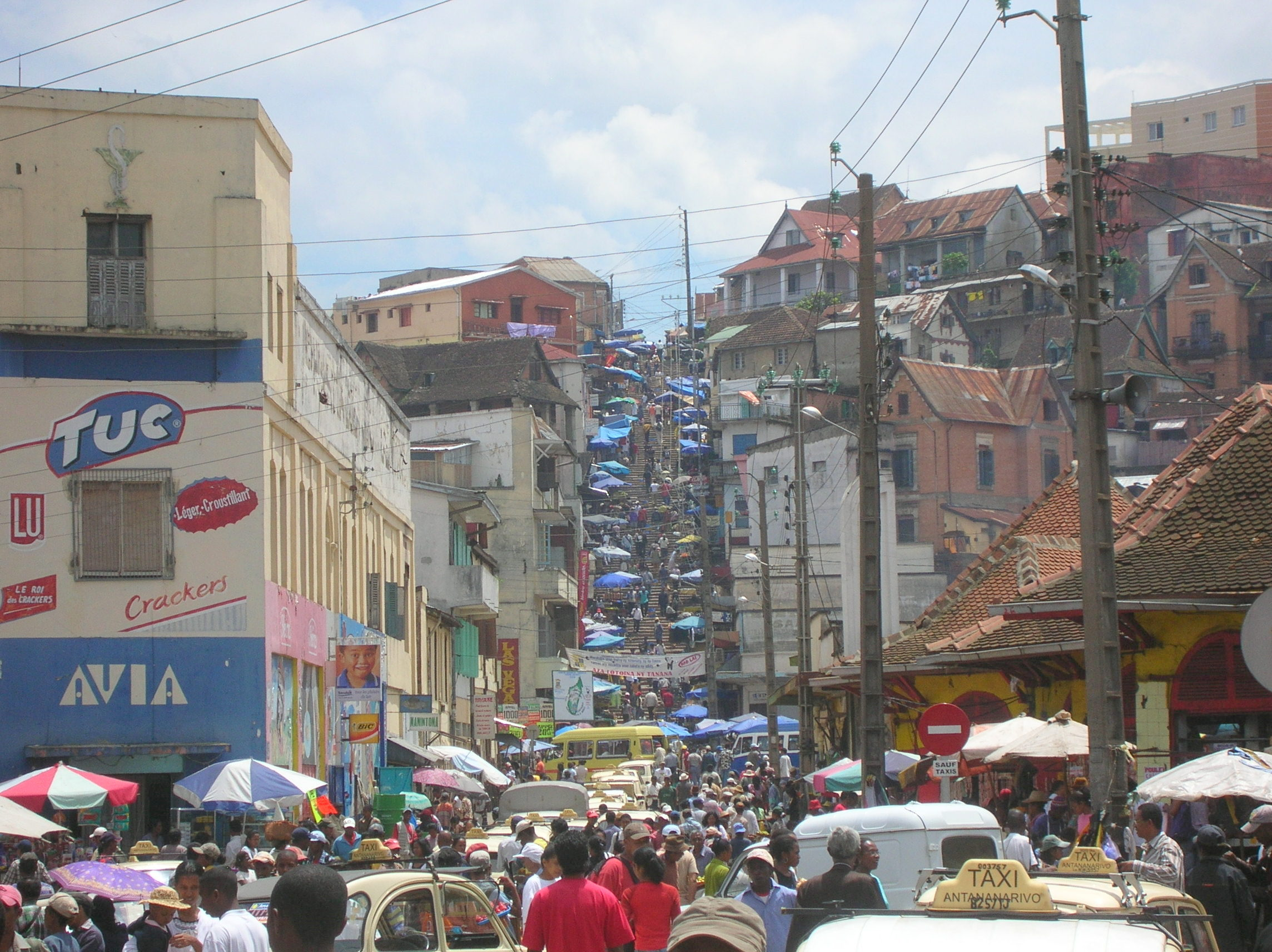 Stairs in Antananarivo, Madagascar